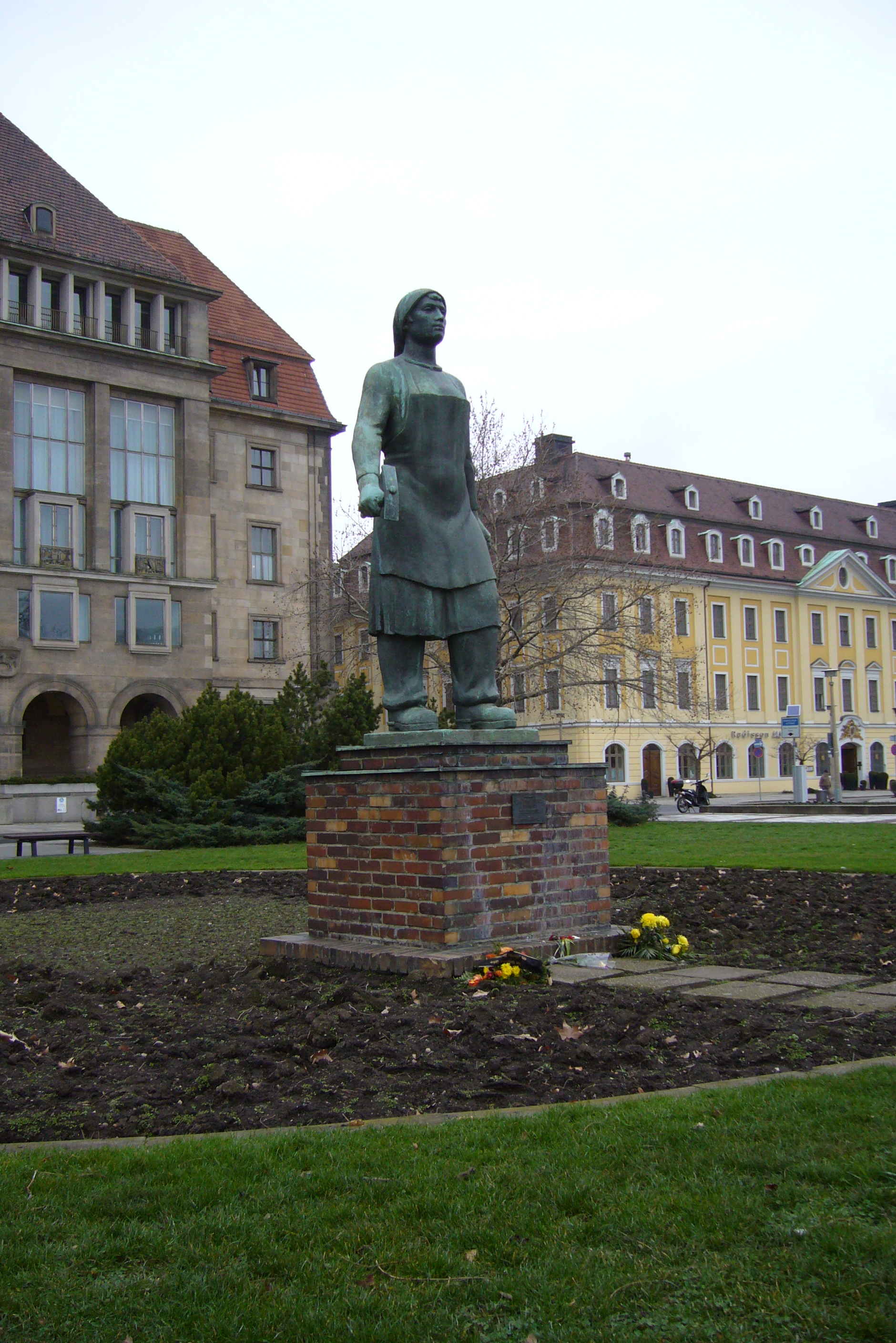 Memorial for the Trümmerfrauen (rubble women) of Dresden